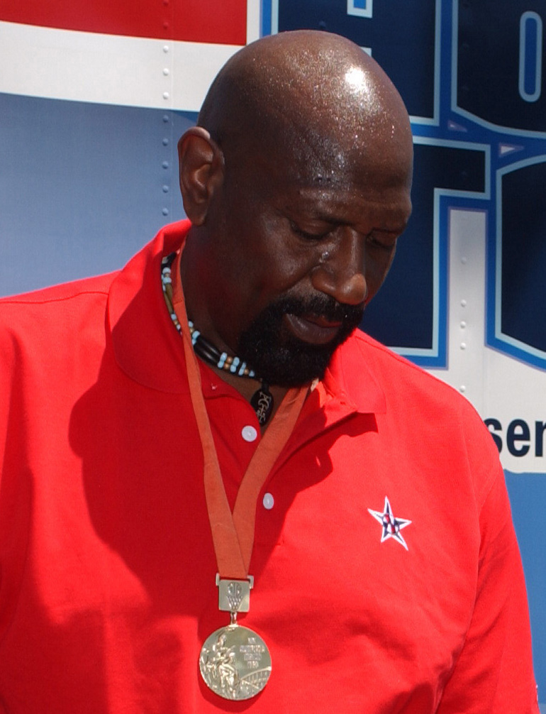 Retired NBA All-Star and Olympic gold medalist Spencer Haywood signs a basketball for Col. Gerald Curry, 99th Security Forces Group commander, Nellis Air Force Base, Nev. Mr Haywood and other former NBA players visited Nellis Aug. 1 to sign autographs and meet the troops as part of a Team USA baseketball tour.